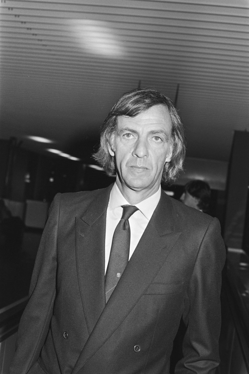 César Luis Menotti, coach of FC Barcelona